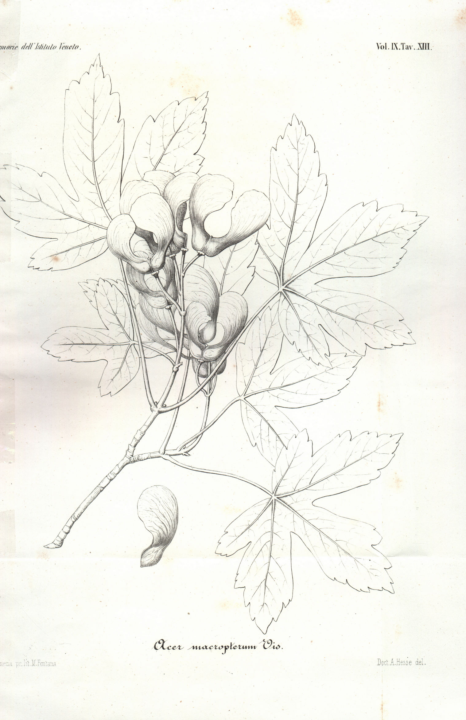 Roberto de Visiani: Plantarum serbicarum pemptas; ossia descrizione di cinque piante serbiane. Memorie del Reale Istituto Veneto di Scienze, Lettere ed Arti / 9. 1860, Venezia: Ferrari, 1860. Iconography of Acer macropterum Vis. (Acer heldreichii ssp. visianii K.Maly)